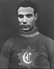 Édouard "Newsy" Lalonde, Canadian hockey player from the first half of the 20th century. From the English Wikipedia: Old 1910 cigarette company card